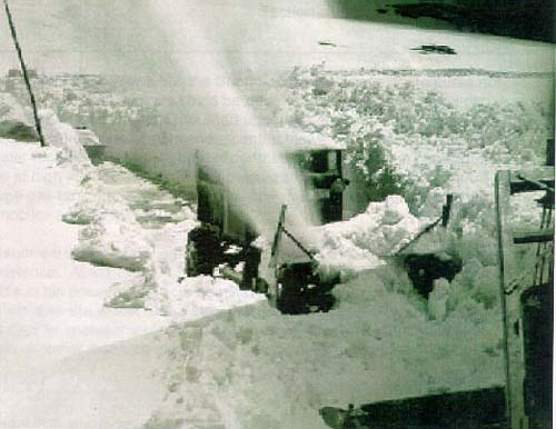 Historic photo of the Snogo Snow Plow in operation along Trail Ridge Road in Rocky Mountain National Park. Now stored west of Estes Park in Larimer County, Colorado, United States, it was built in 1932 and is listed on the National Register of Historic Places.